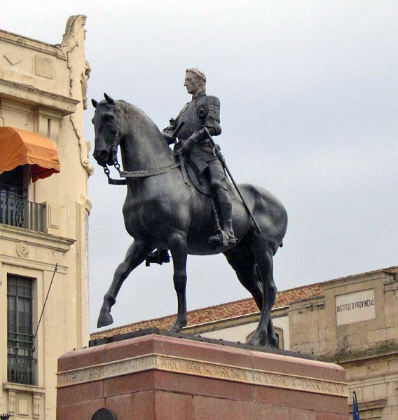 Monumento al Gran Capitán, obra de Mateo Inurria, en la plaza de Tendillas en Córdoba, España. 884768,-4.779611.